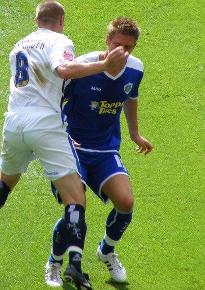 Michael Morrison. Image cropped from original at Flickr.